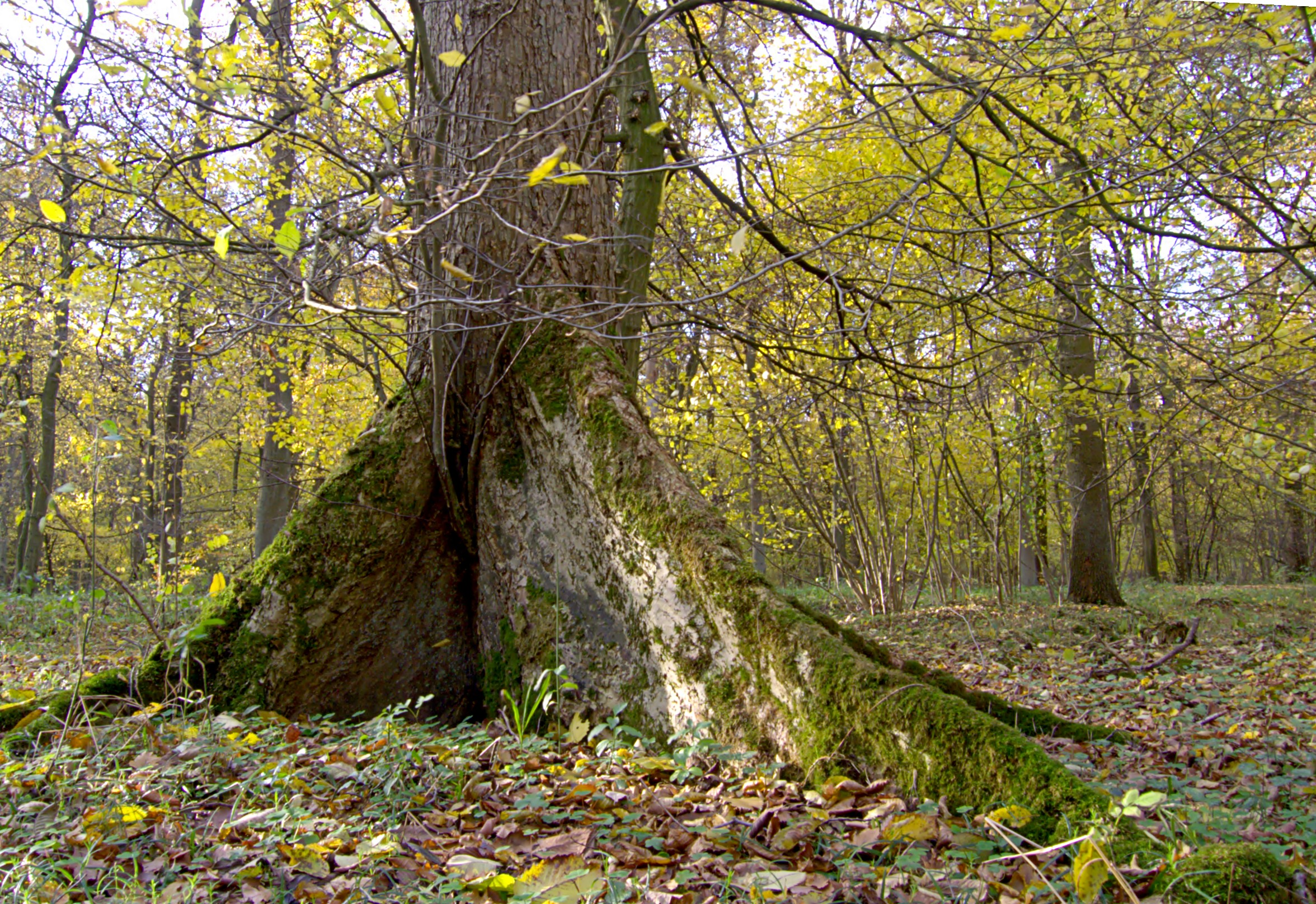 Buttress root of Ulmus laevis. Location: Münster, NRW, Germany